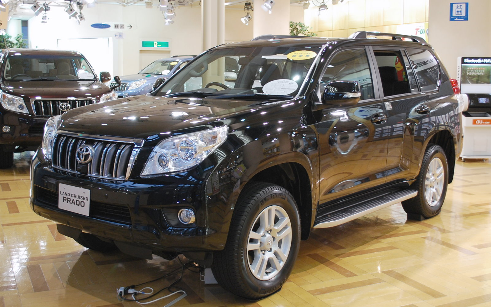 4th generation Toyota Land Cruiser Prado (2009/9 -)